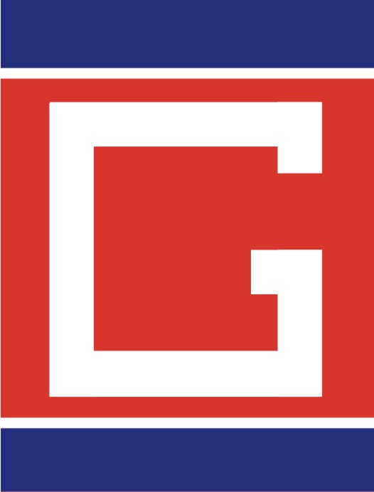 The former logo of Gymnasium, a public school that belongs to the National University of Tucumán (UNT), Argentina.